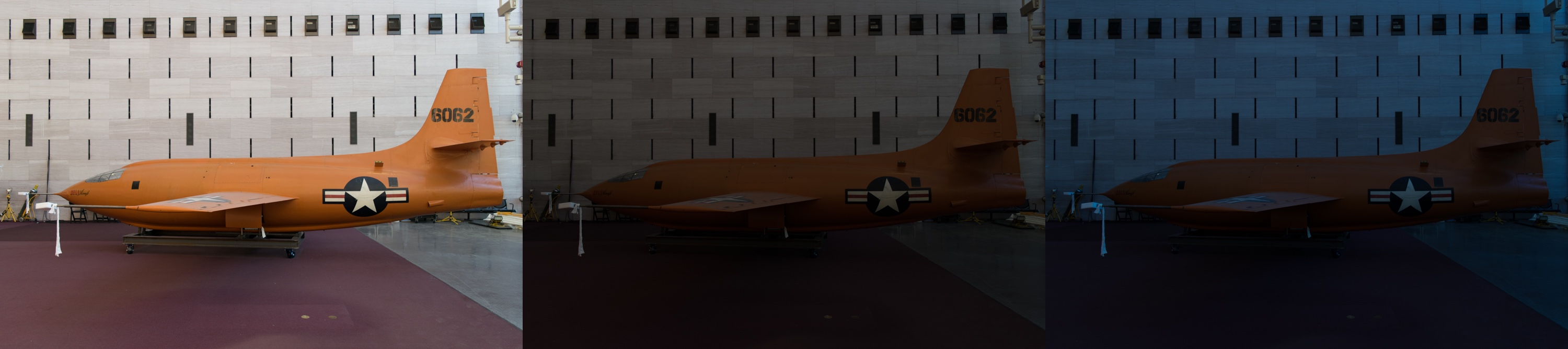 Photo of Bell X-1 used to illustrate the cinematic technique of day for night.